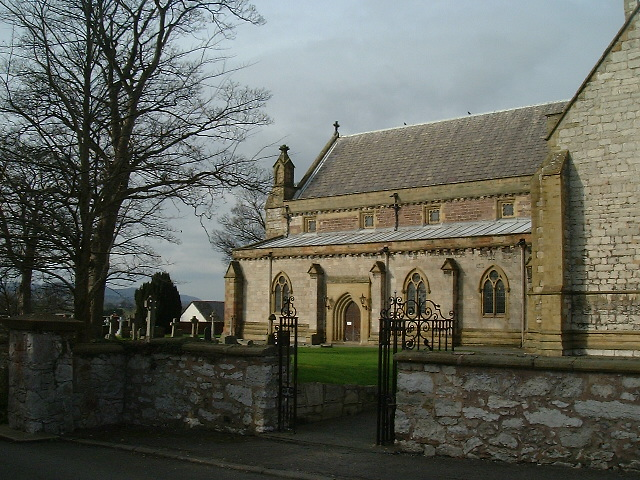 St Asaph cathedral